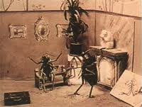 A still from Ladislas Starevich's 1912 film The Cameraman's Revenge.